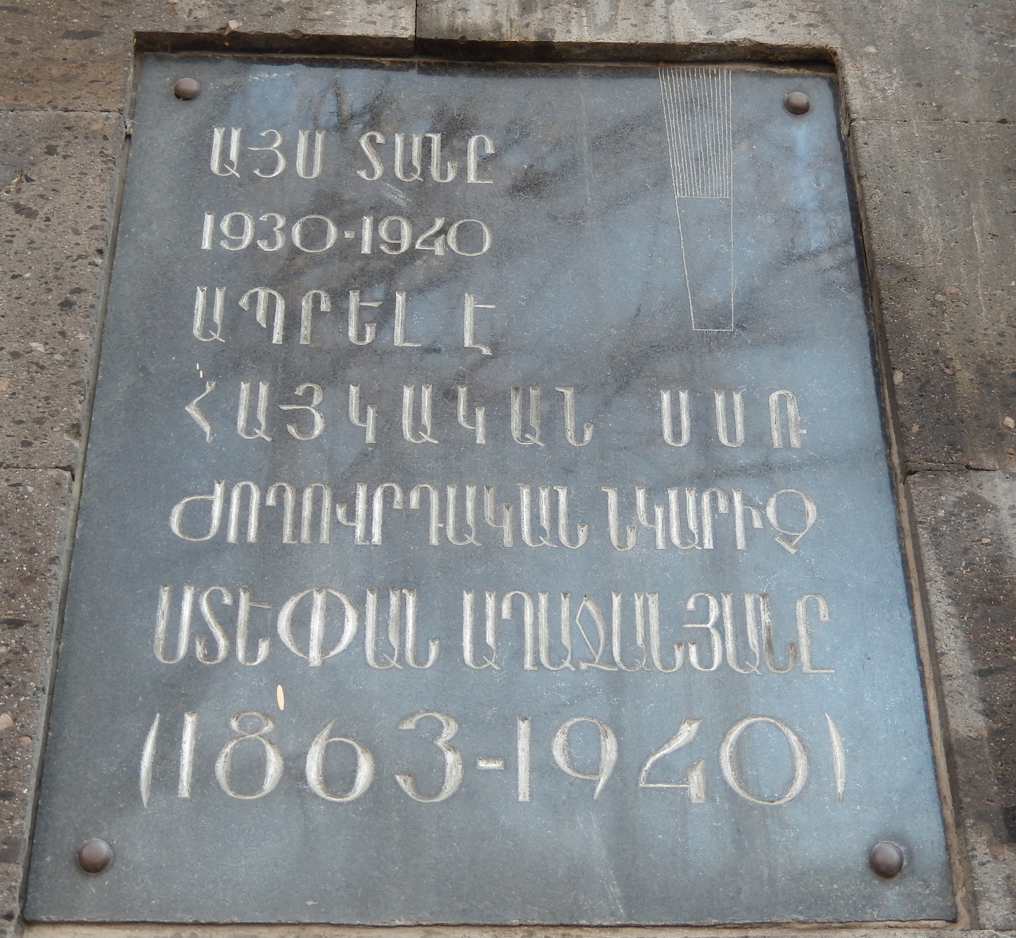 Stepan Aghajanyan, plaque, Abovyan 42